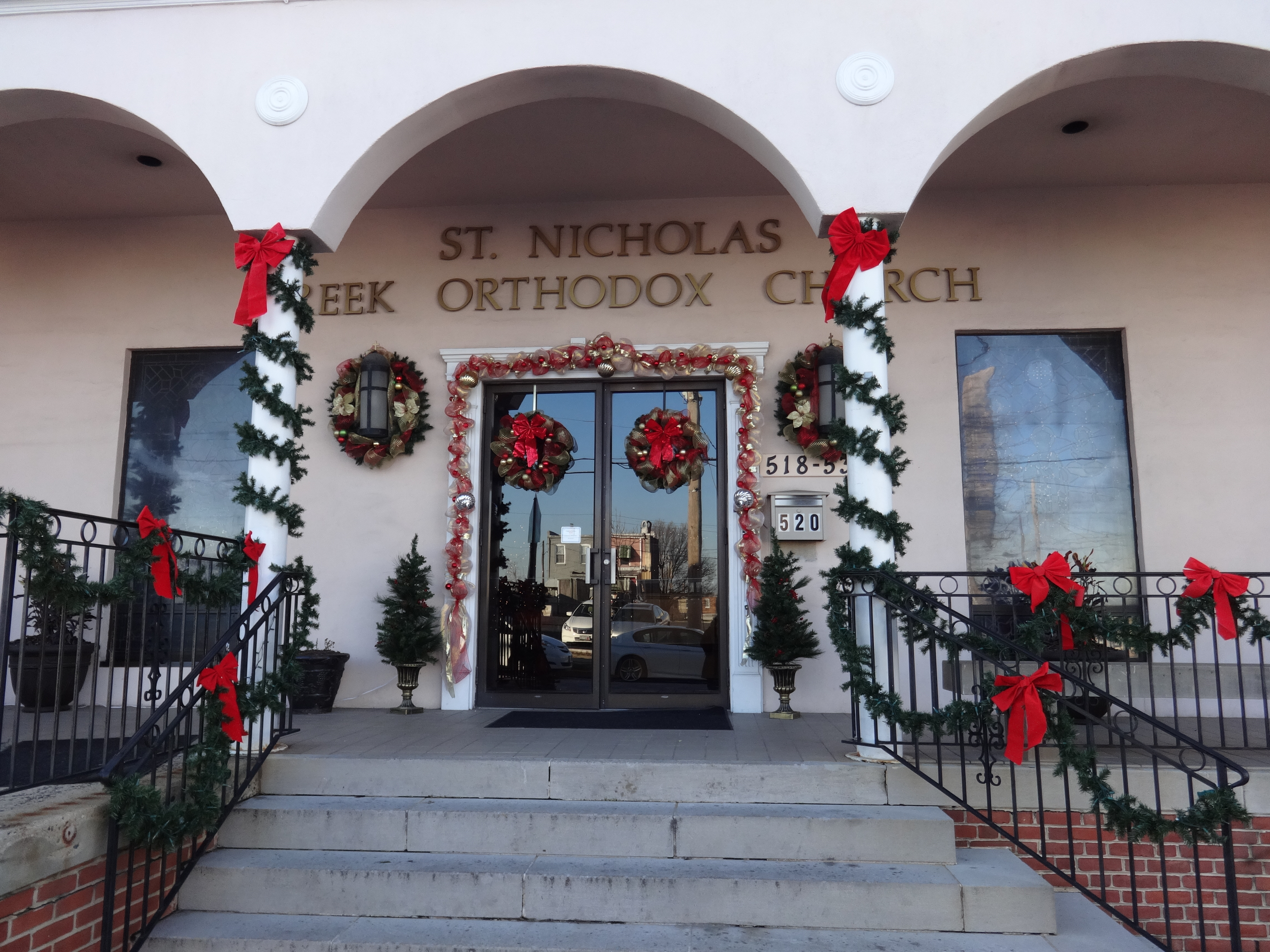 St. Nicholas Greek Orthodox Church of Baltimore on Ponca Street in Greektown, Baltimore, Maryland.